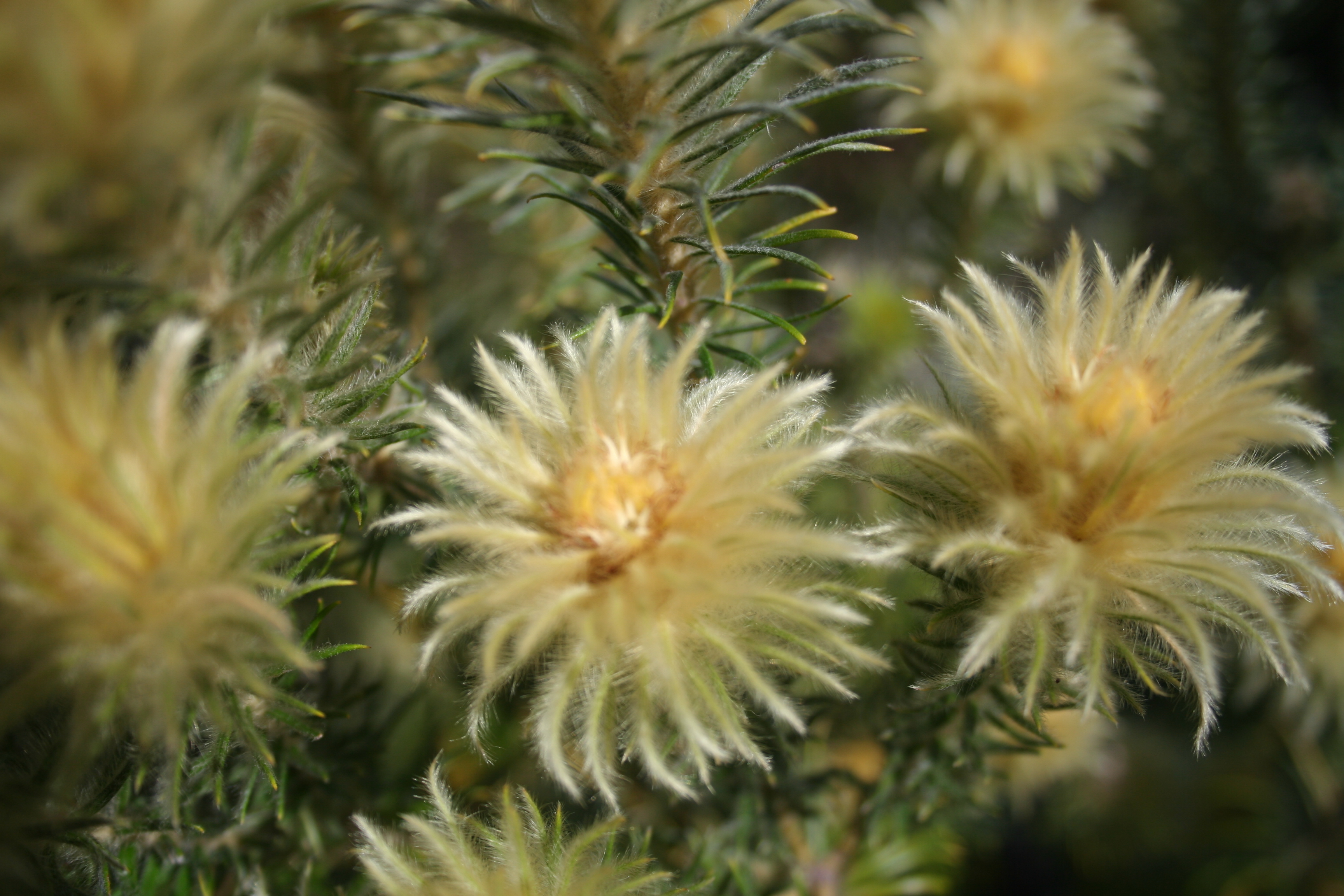 Phylica pubescens, Helderberg Nature Reserve, South Africa